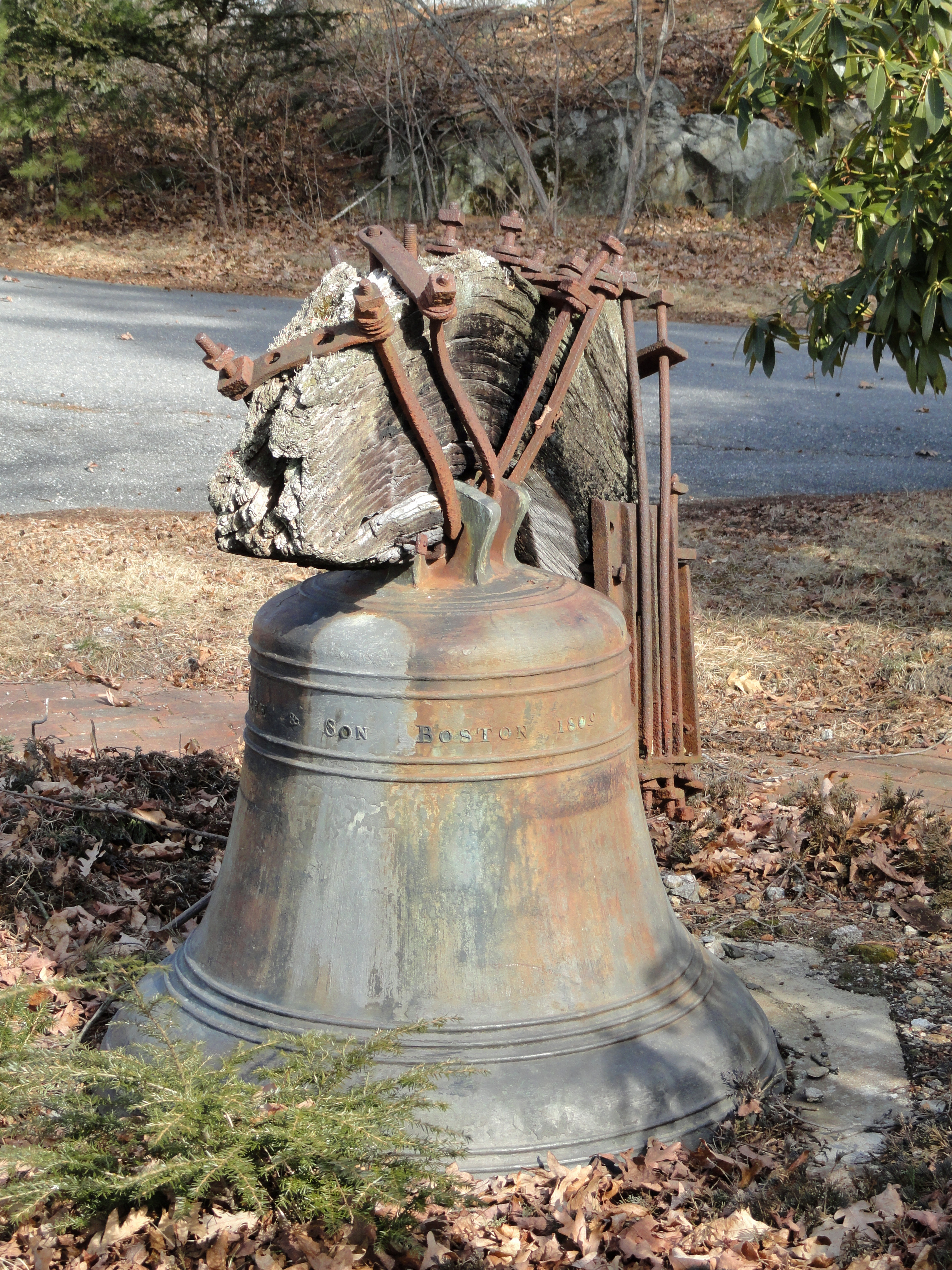 Paul Revere Foundry bell, cast 1809, destroyed in fire 1945, on the grounds of the First Parish Church Unitarian Universalist, 40 Church Street, Northborough, Massachusetts, USA.